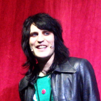 Photo of Noel Fielding in a live appearance of The Mighty Boosh, taken on February 17, 2006. Uploaded to flickr by Ella Mullins under the Creative Commons Attribution 2.0 Generic license.